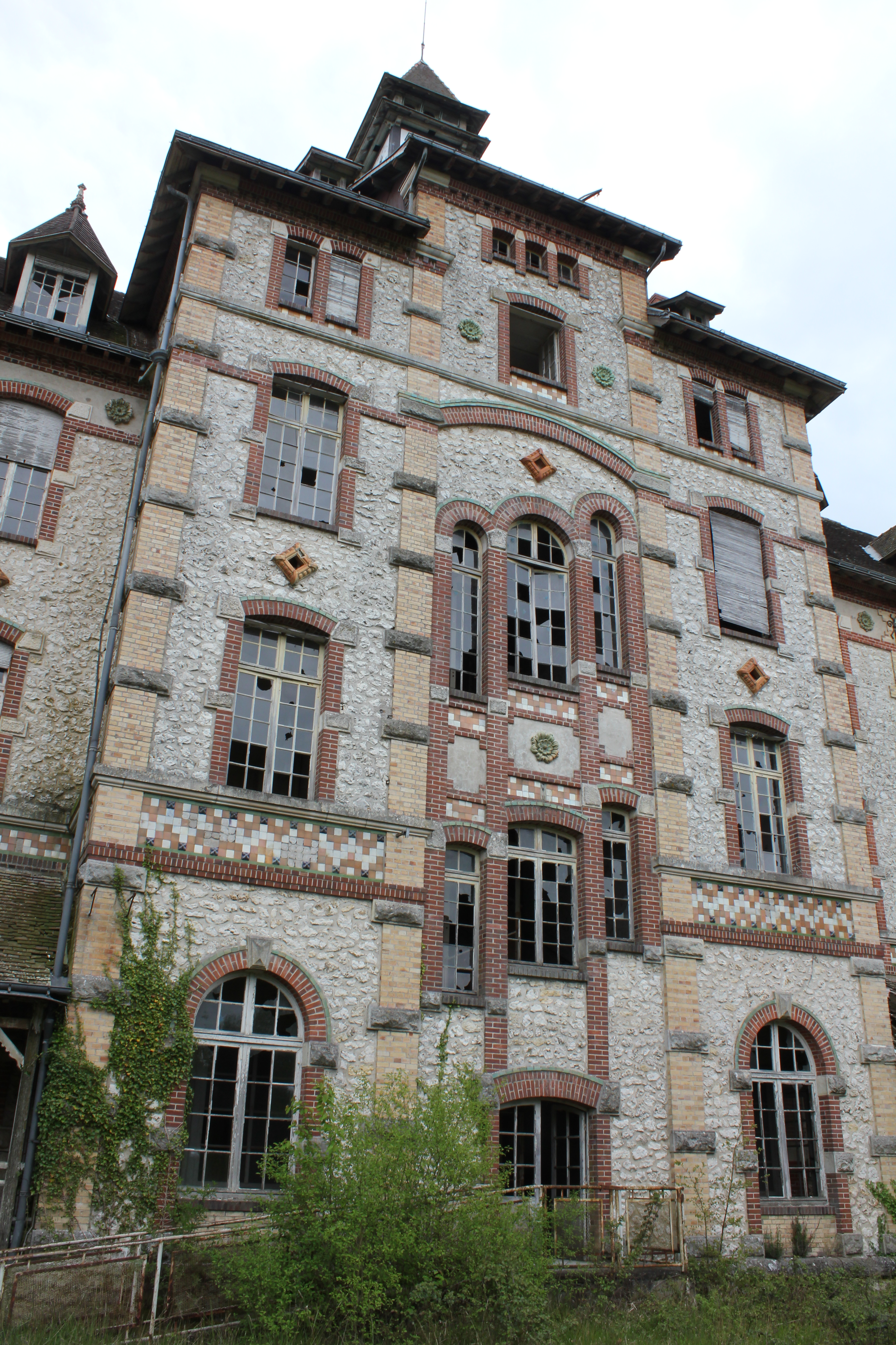 The orphanage of Haute-Barde, located in the commune of Beaumont-la-Ronce (Indre-et-Loire, France).